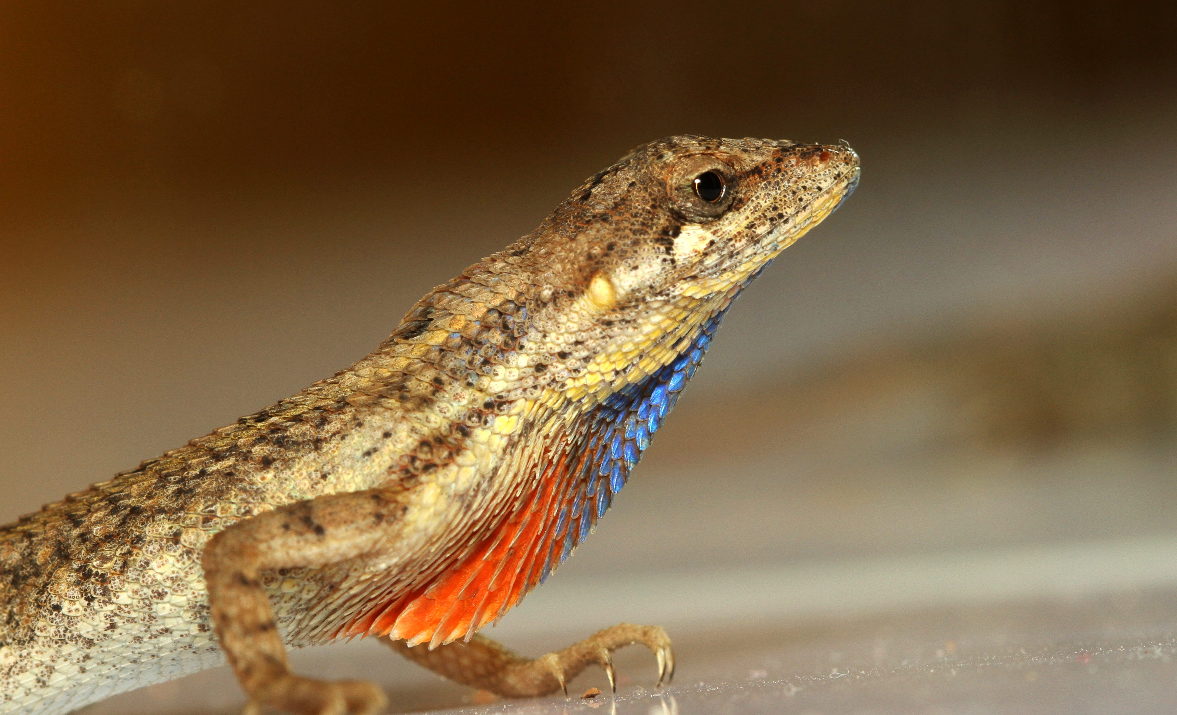 New species of fan-throated lizard named after Sir David Frederick Attenborough